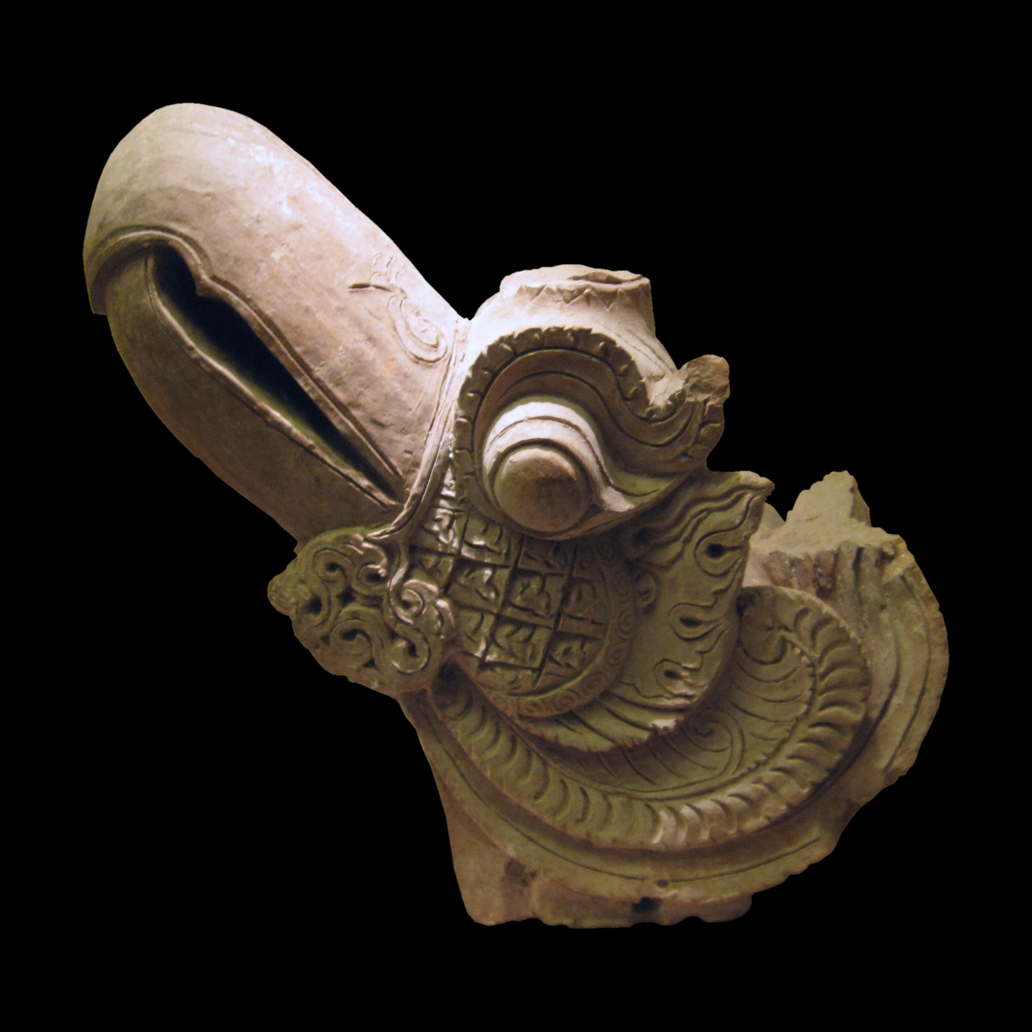 Phoenix head. Terracotta, Trần-Hồ dynasty, 14th-15th century. Architectural decoration. National Museum of Vietnamese History, Hanoi.